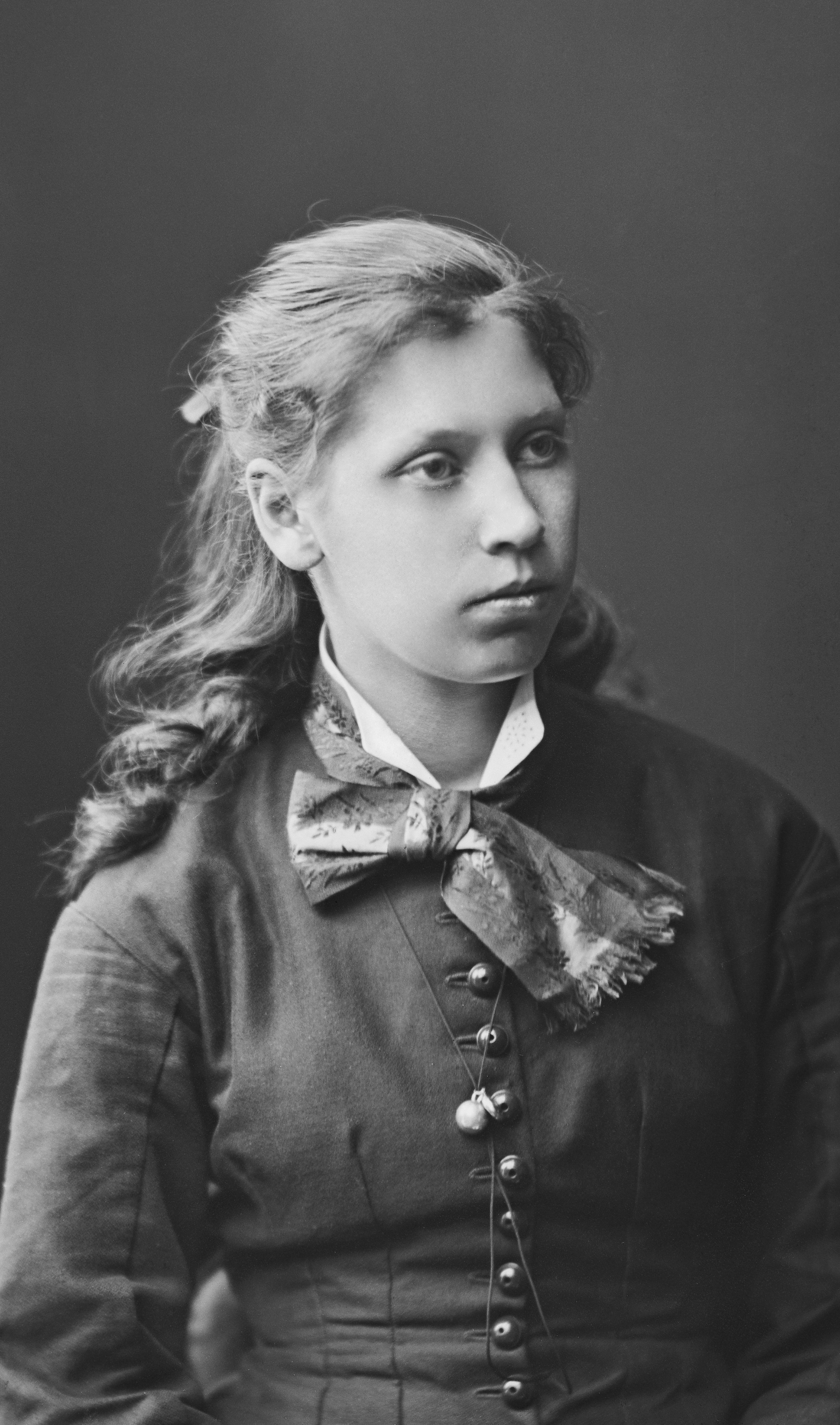 Photograph of the Finnish architect Signe Hornborg (1862–1916).